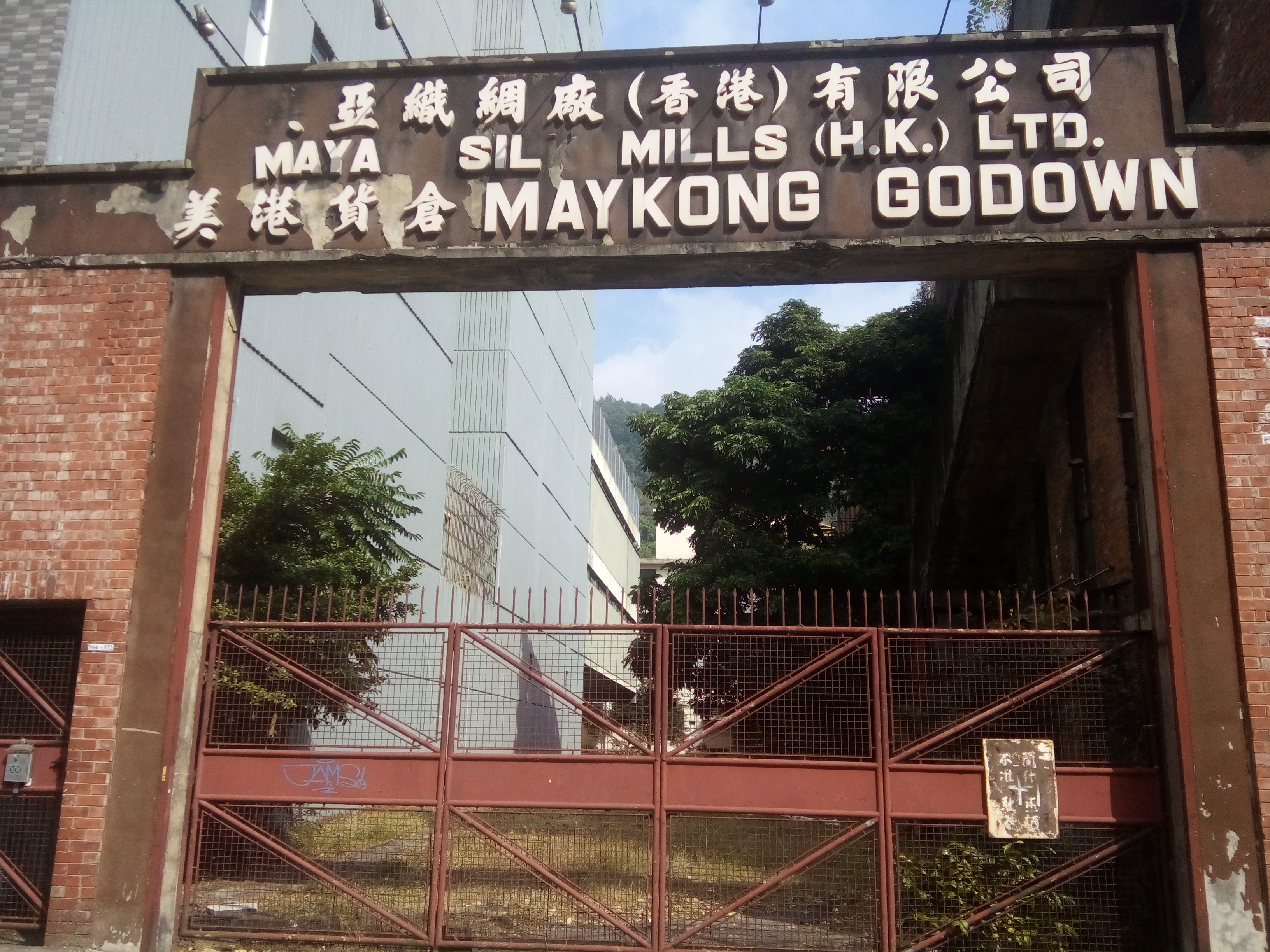 HK 荃灣 Tsuen Wan 美港貨倉 MayKong Godown 青山公路 Casrtle Peak Road in Jan 2017